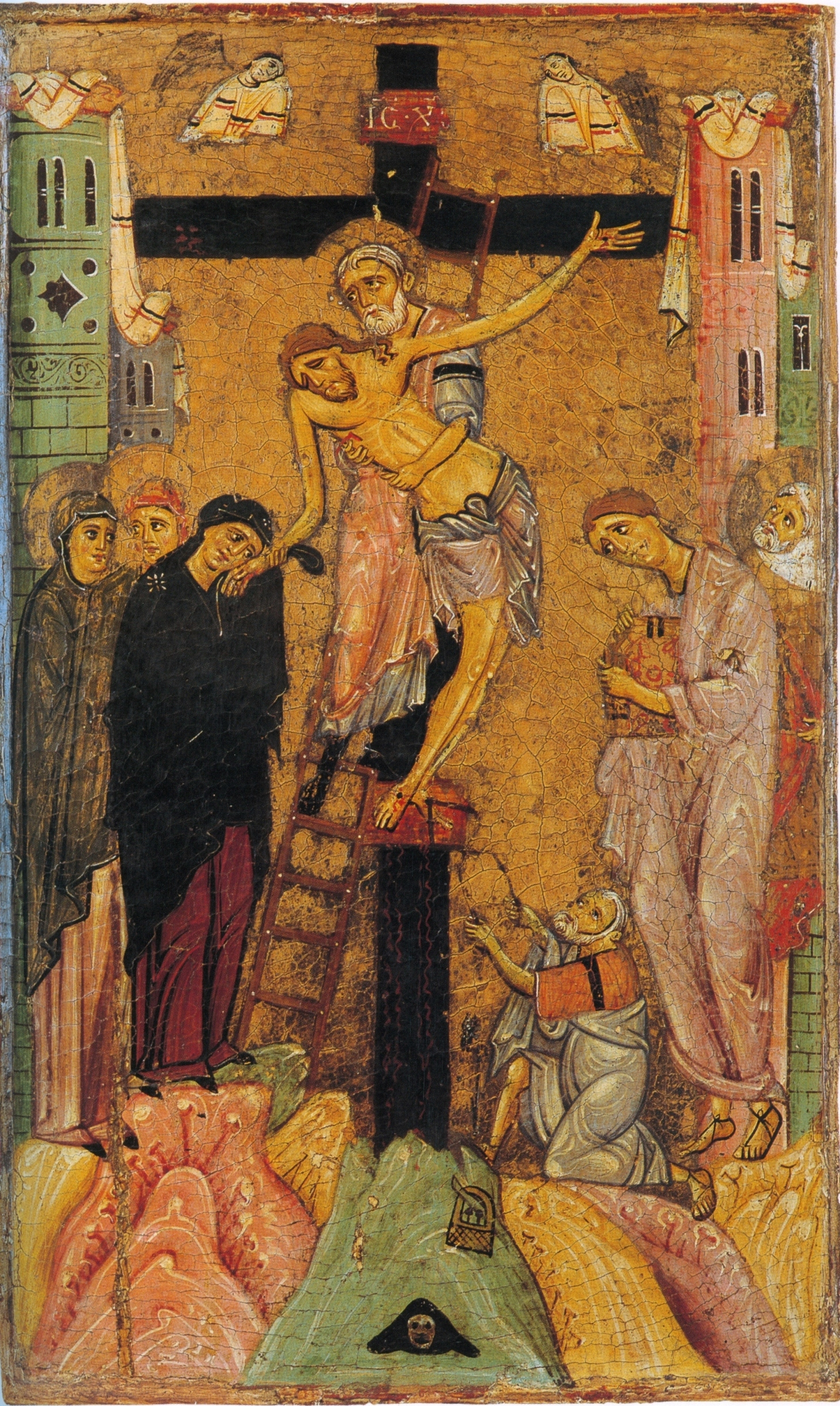 The Deposition.